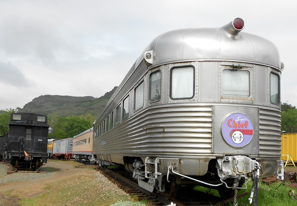 A club car from the Super Chief, the luxurious all-pullman sleeper train which ran from Chicago to Los Angeles during the years, 1936-1971. It was operated mostly by the Acheson, Topeka and Santa Fe line and was a favorite of Hollywood stars. This is one of the many cars and engines on display at the Colorado RR Museum.